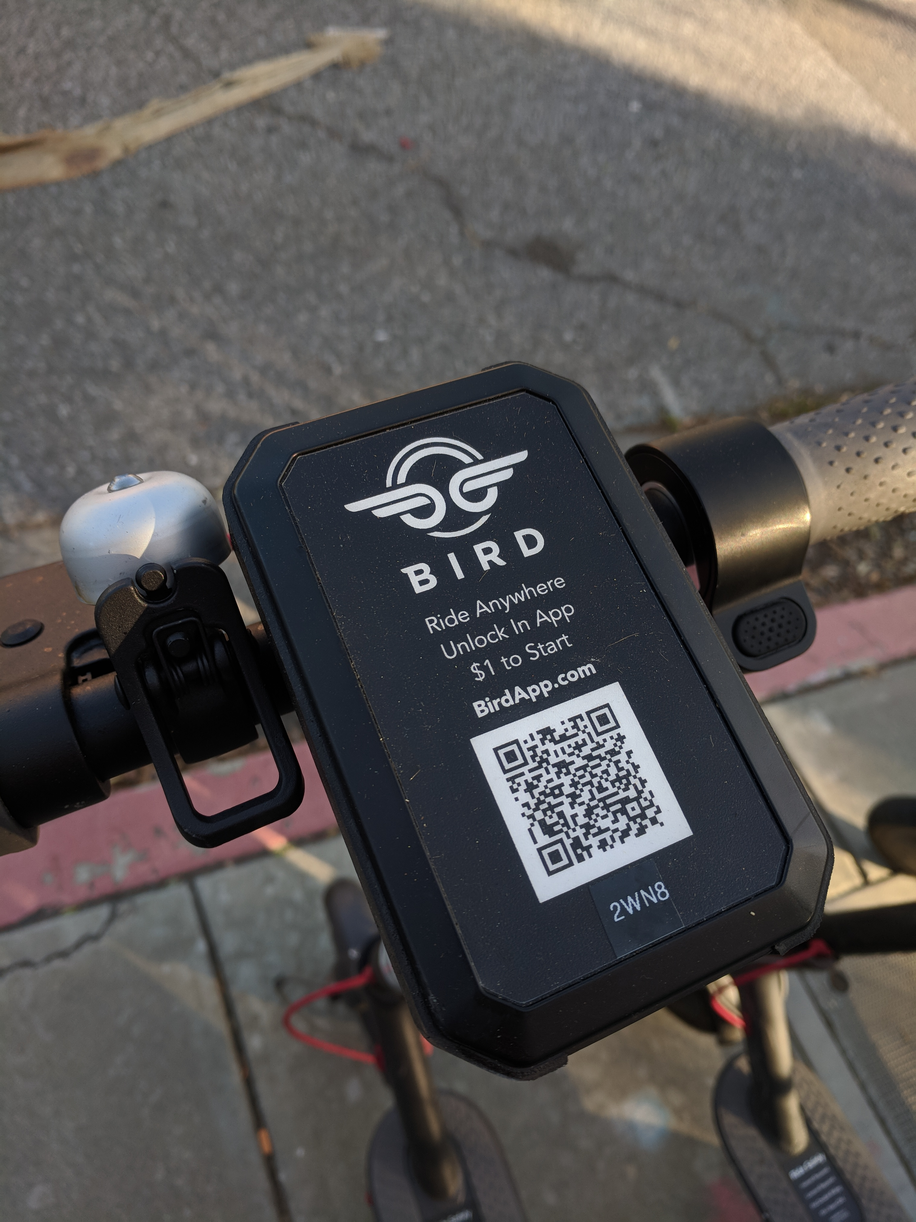 The console of a Bird scooter, with instructions and a QR code used to unlock it.